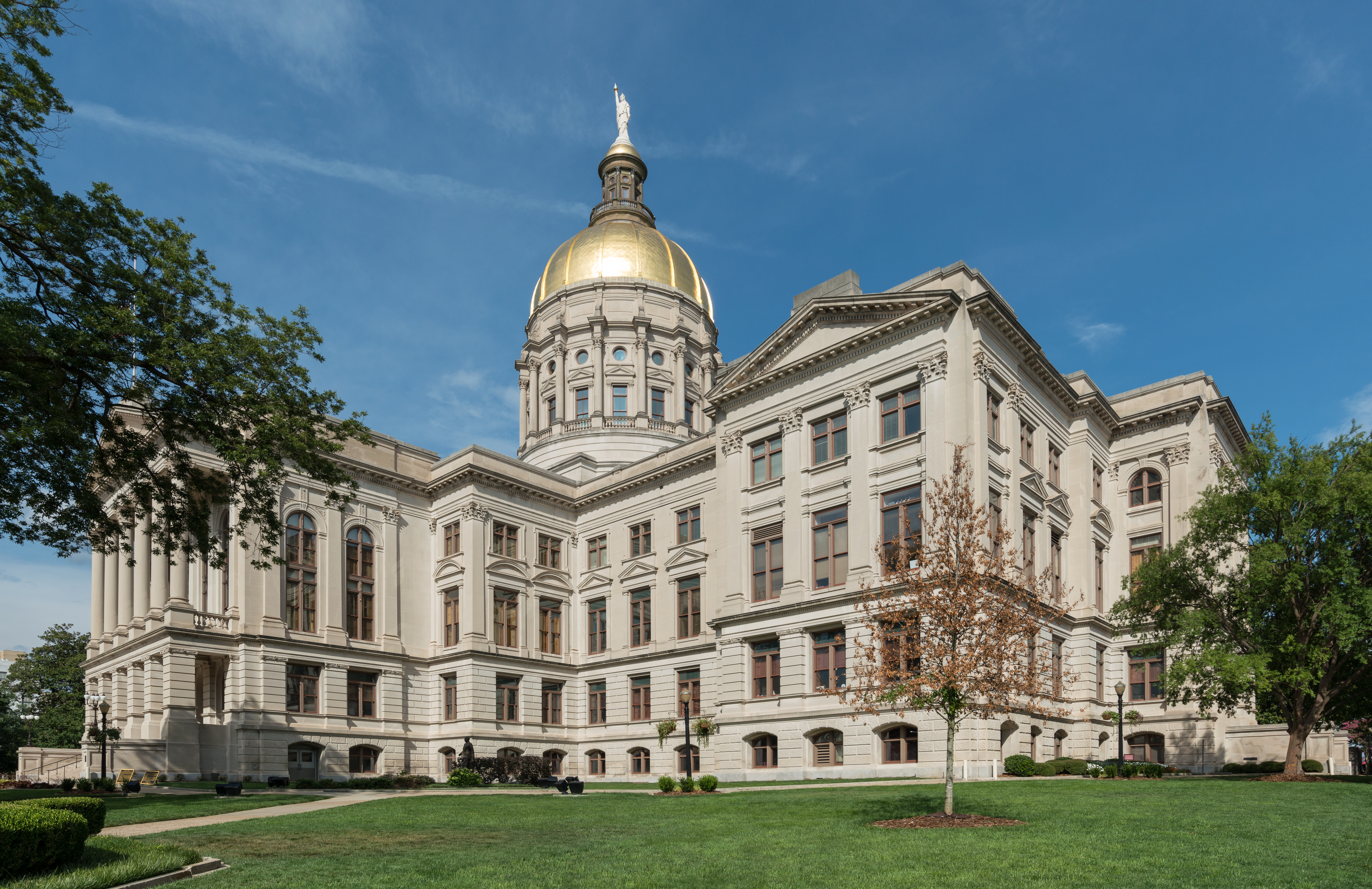 A west view of the Georgia State Capitol, Atlanta